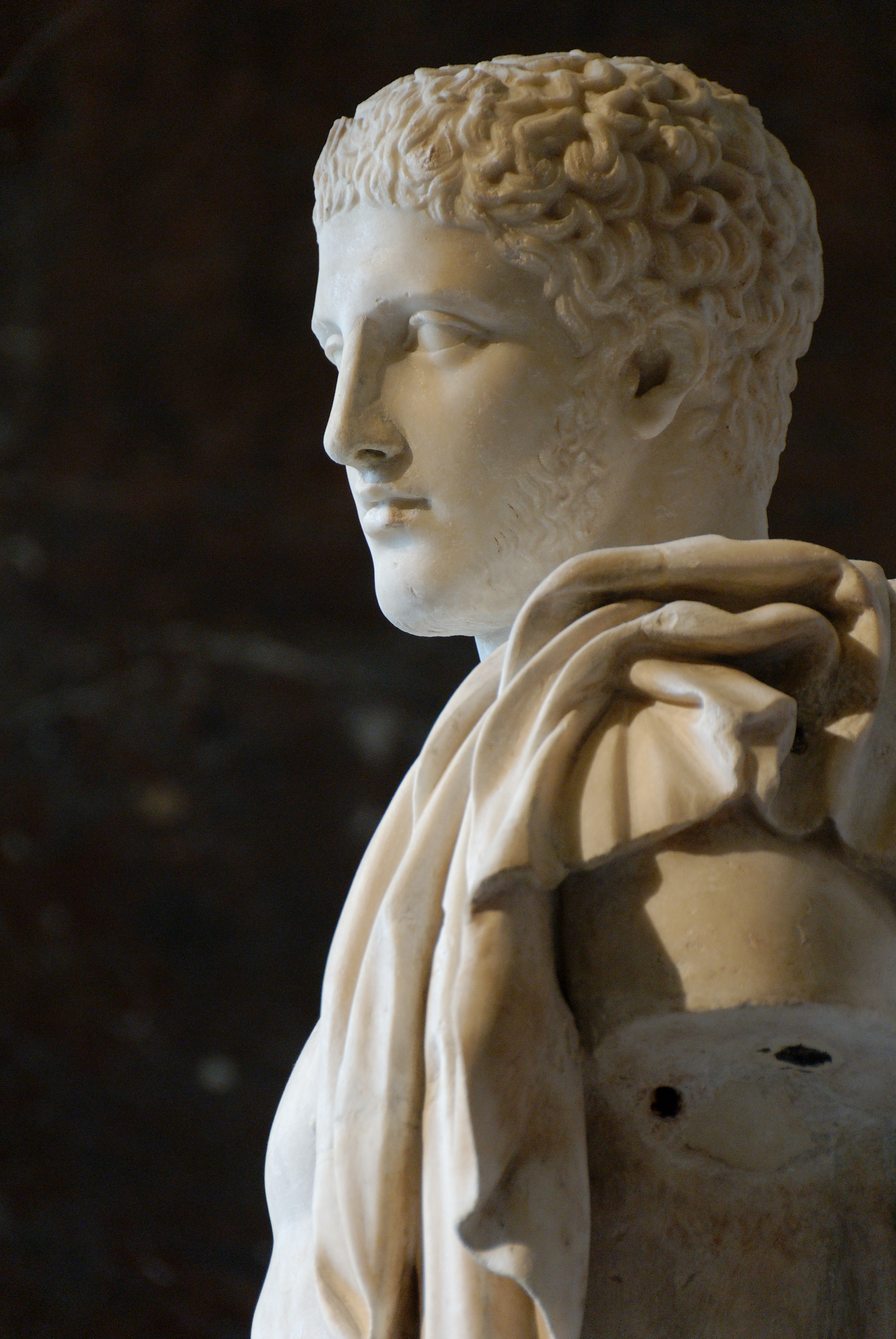 Diomedes stealing the Palladion (now lost). Marble, Roman copy from the 2nd-3rd century CE after a Greek original of the 5th century.